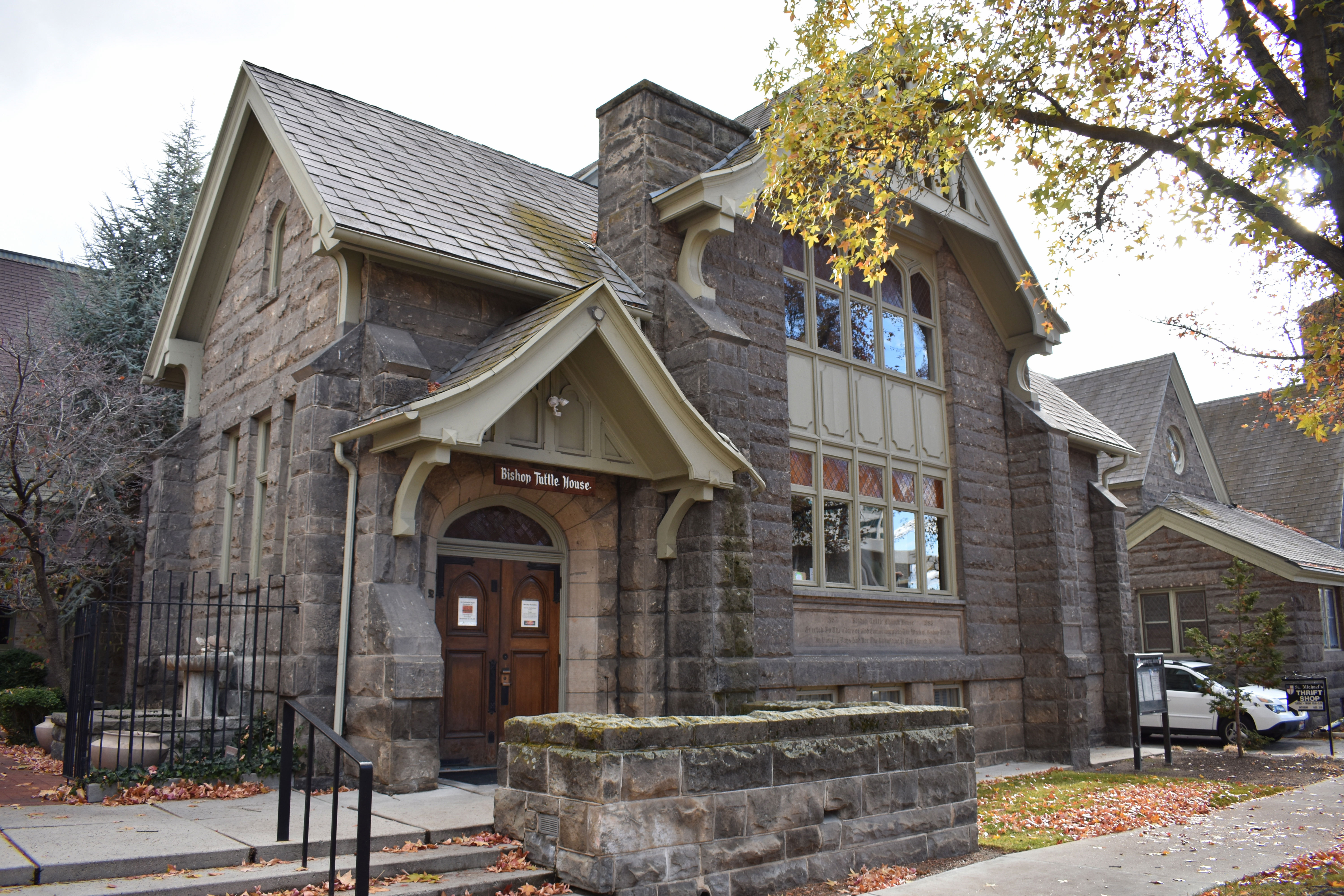 The Bishop Daniel S. Tuttle House (1907) is part of St. Michael's Cathedral in Boise, Idaho. The building was designed by Wayland & Fennell and is listed on the National Register of Historic Places.